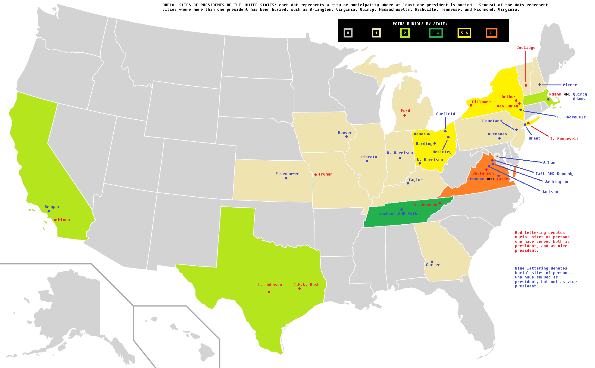 A map of the United States, showing locations of burial sites of United States presidents.